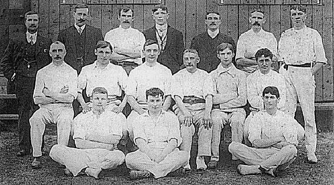 Ley's Cricket team from 1912. The line-up left to right is: Back row - J. Moss, S. Kirkland, W. King, J. Fawcett, J. Jeffreys, J. Adams, S. Bloomer Middle row - T. Kirkham, H. Barnes, W. Matthews (captain), W. E. Dexter, J. W. Smith, H. E. Burton. Front row - J. Bagshaw, F. Tapping, J. O'Donnell.